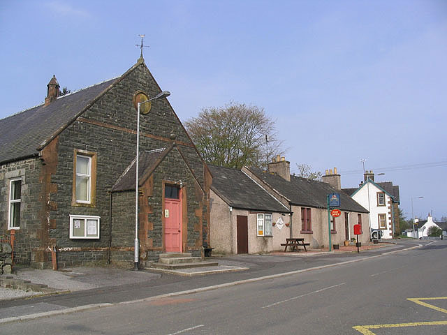 Corsock village hall and post office